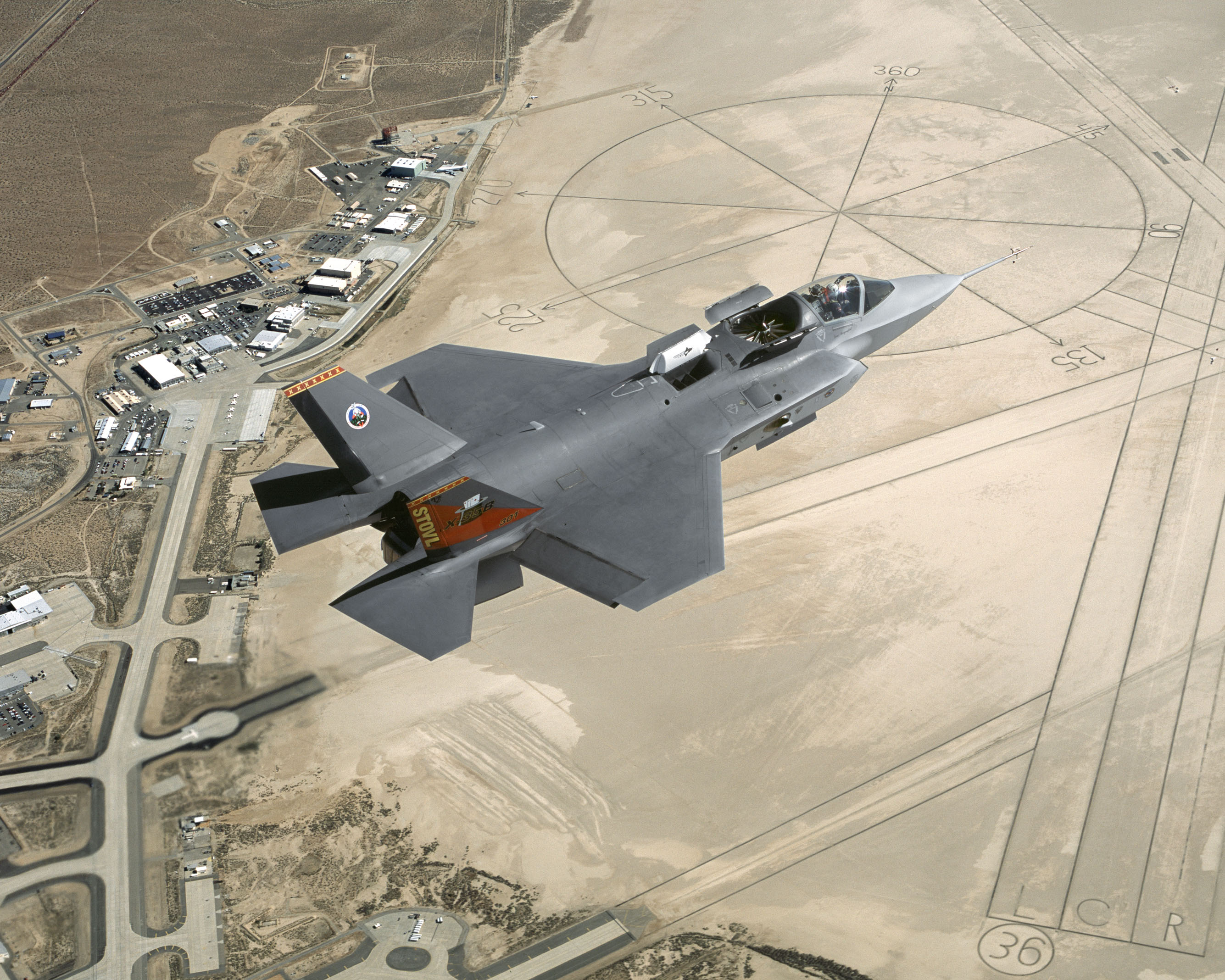 Lockheed Martin "X-35B" JSF Flight Number 42 & 43 July 11, 2001 Pilot - Simon Hargreaves, BAe Edwards AFB, CA Photographer - Tom Reynolds